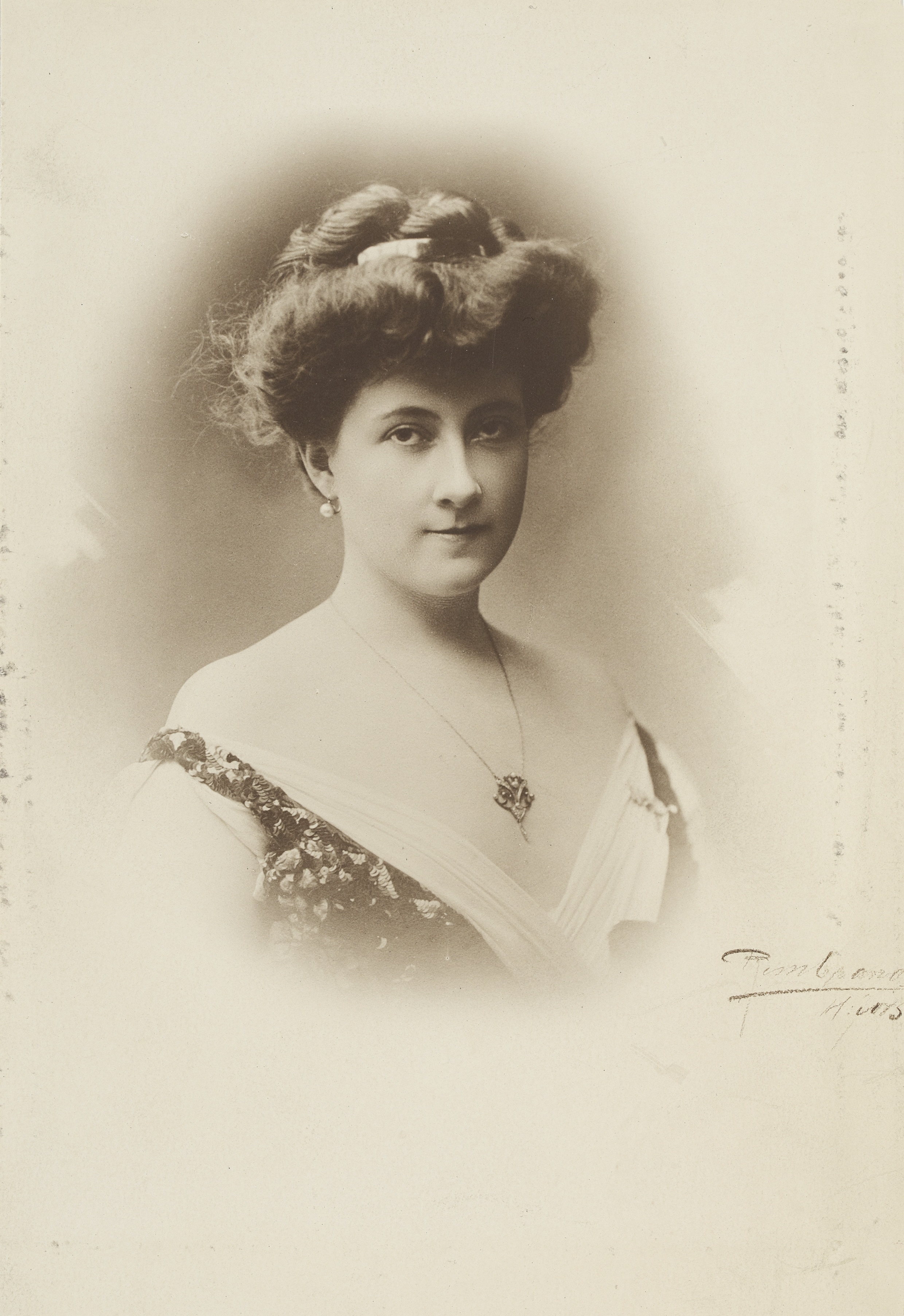 The Finnish opera singer Mally Burjam-Borga in the 1910s